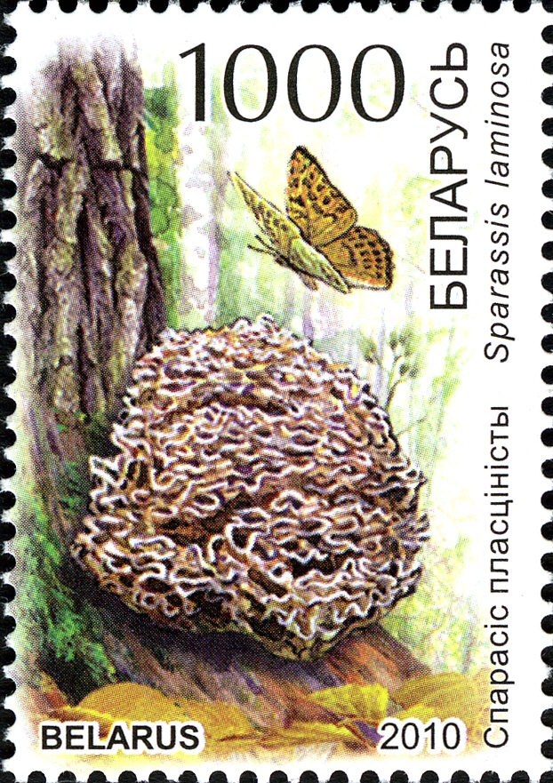 Stamp of Belarus